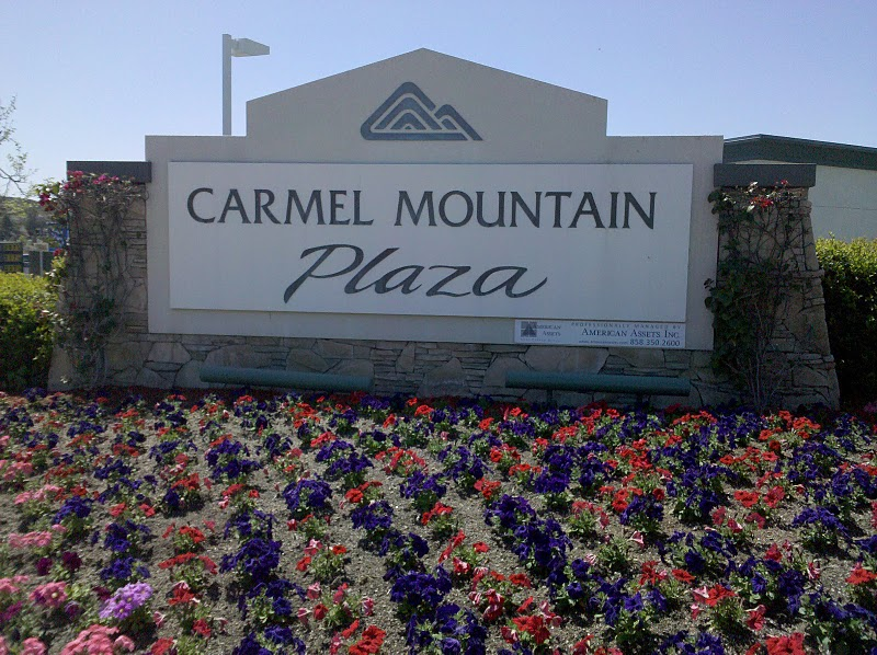 Carmel Mountain Plaza sign